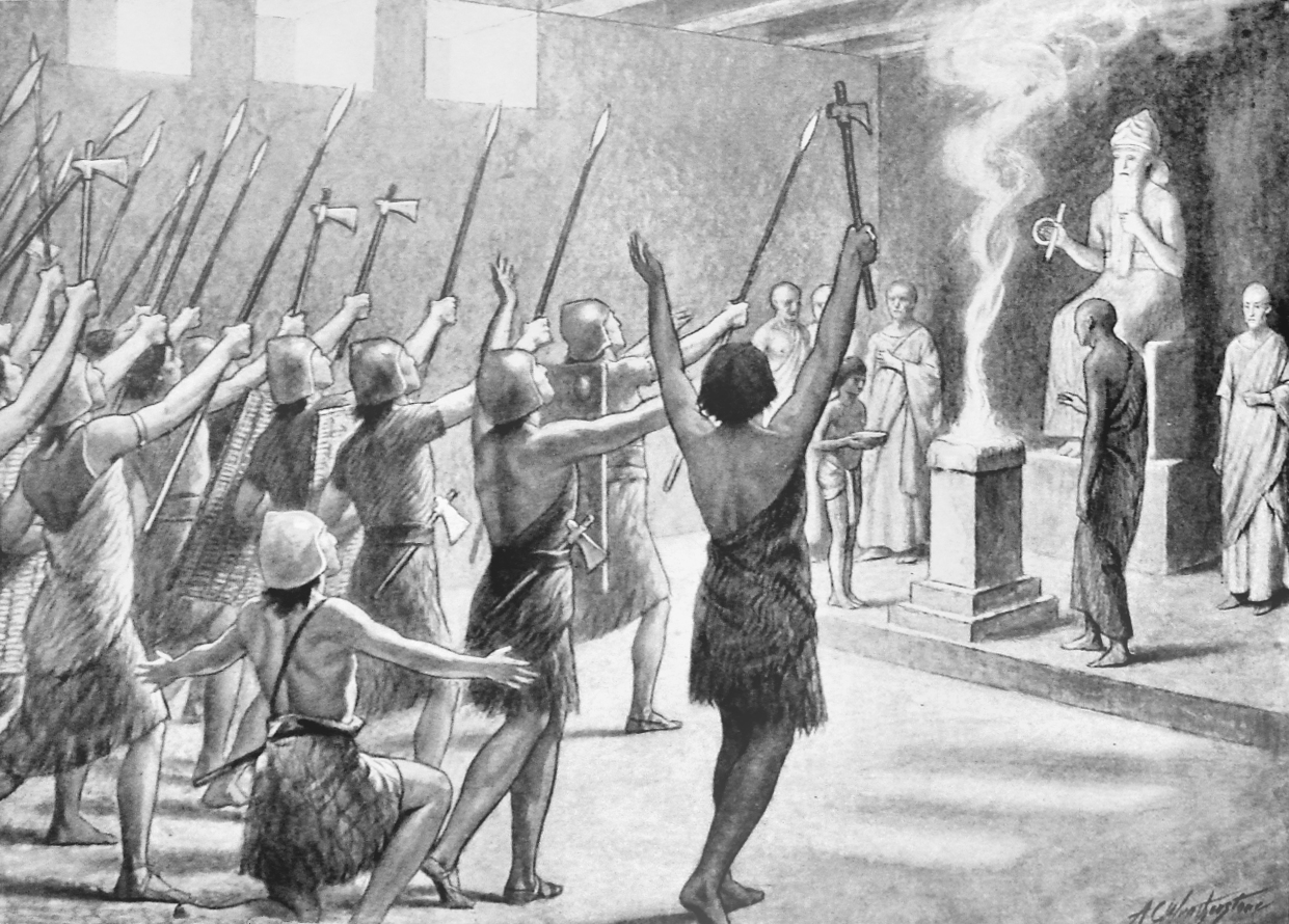 Utu-Khegal, Prince of the Summerian city of Erech, imploring victory against the Gutian king Tirikan